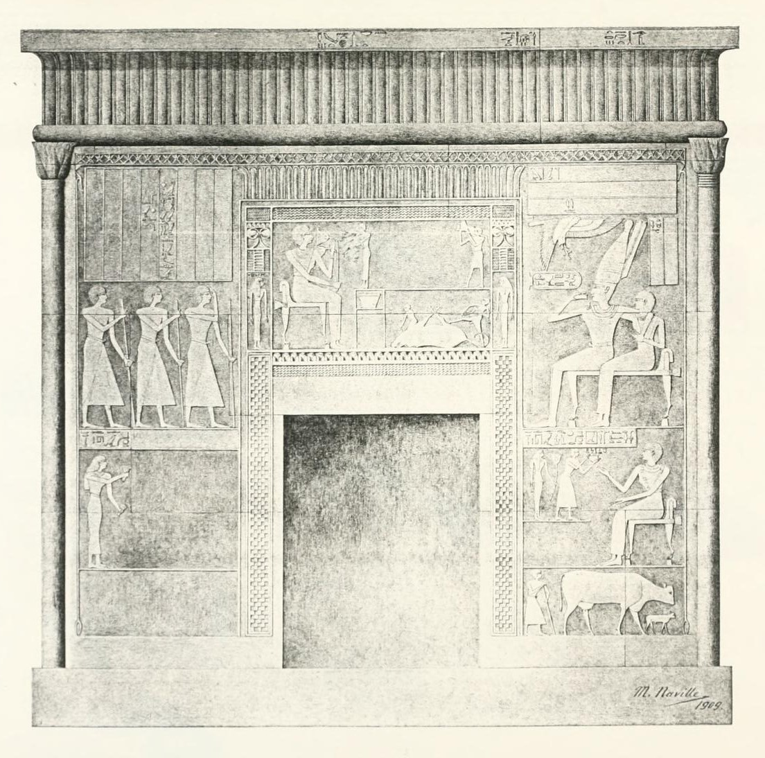 Shrine/outer sarcophagus of Sadeh, a queen of pharaoh Mentuhotep II, from Deir el-Bahari. Reign of Mentuhotep II, 11th Dynasty, early Middle Kingdom.